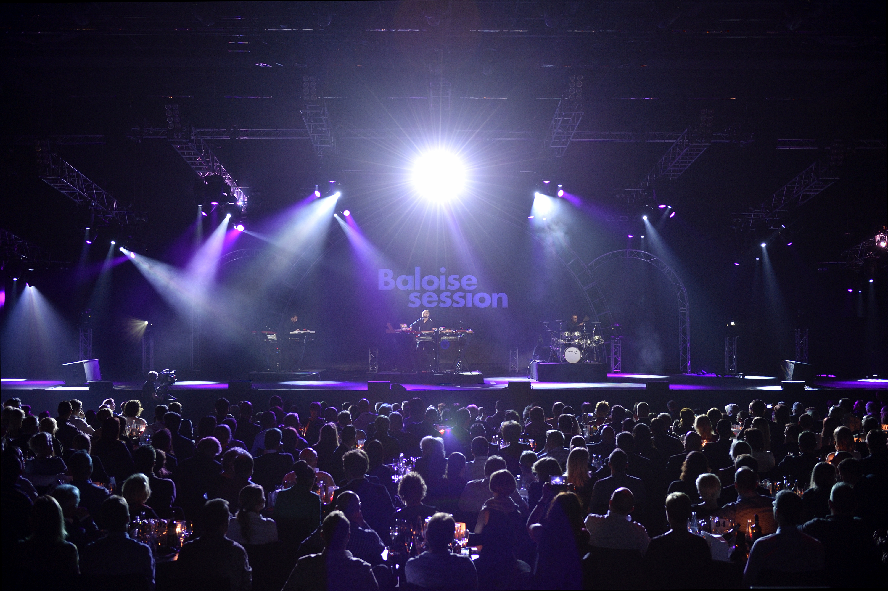 Konzert an der BALOISE SESSION 2014